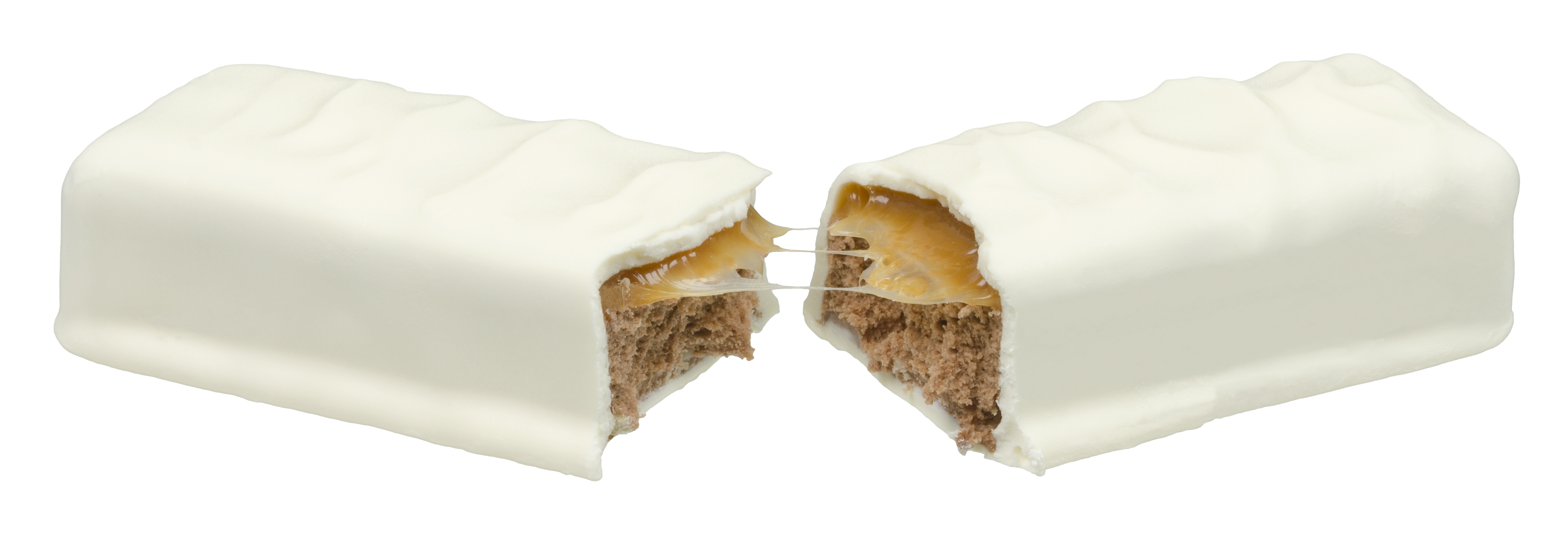 A ZERO chocolate bar that has been split in half. It is a white fudge candy bar and made by Hershey.